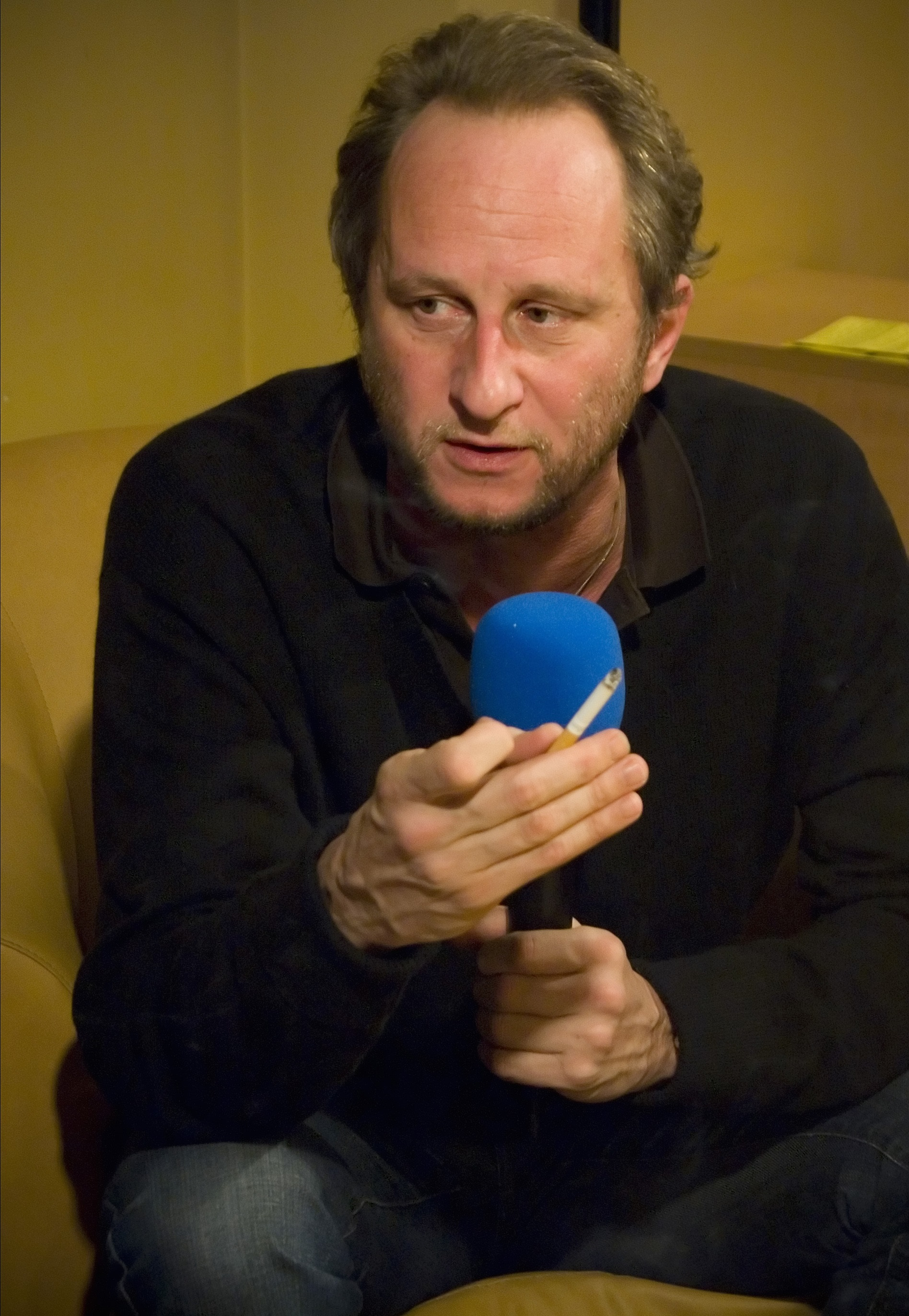 Benoît Poelvoorde at the France Bleu Auxerre radio station during the eighth music and cinema festival of Auxerre (France).Benoît Poelvoorde